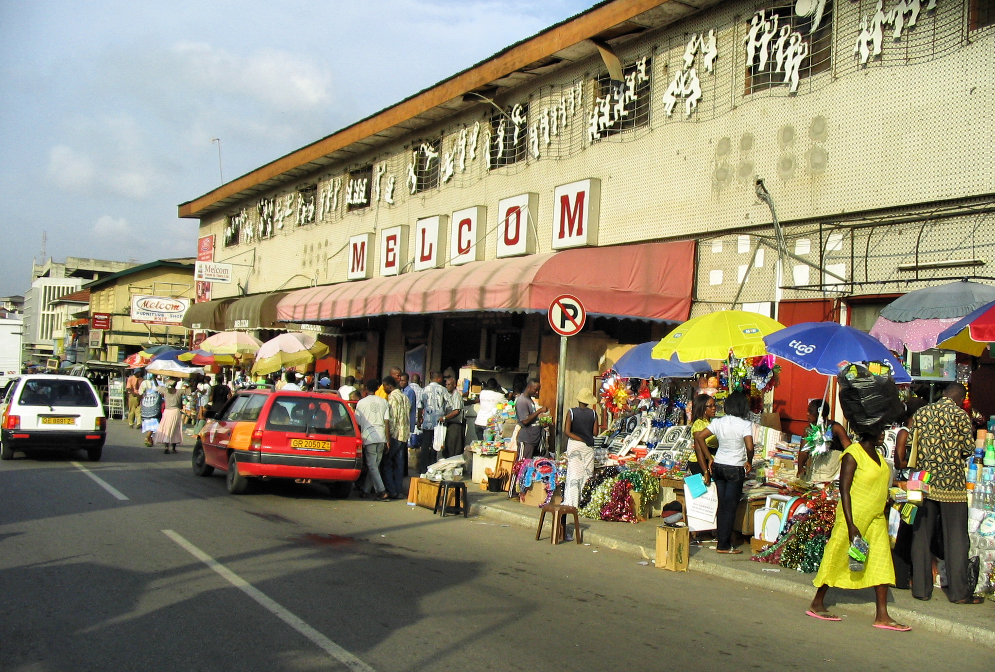 Melcom in Accra